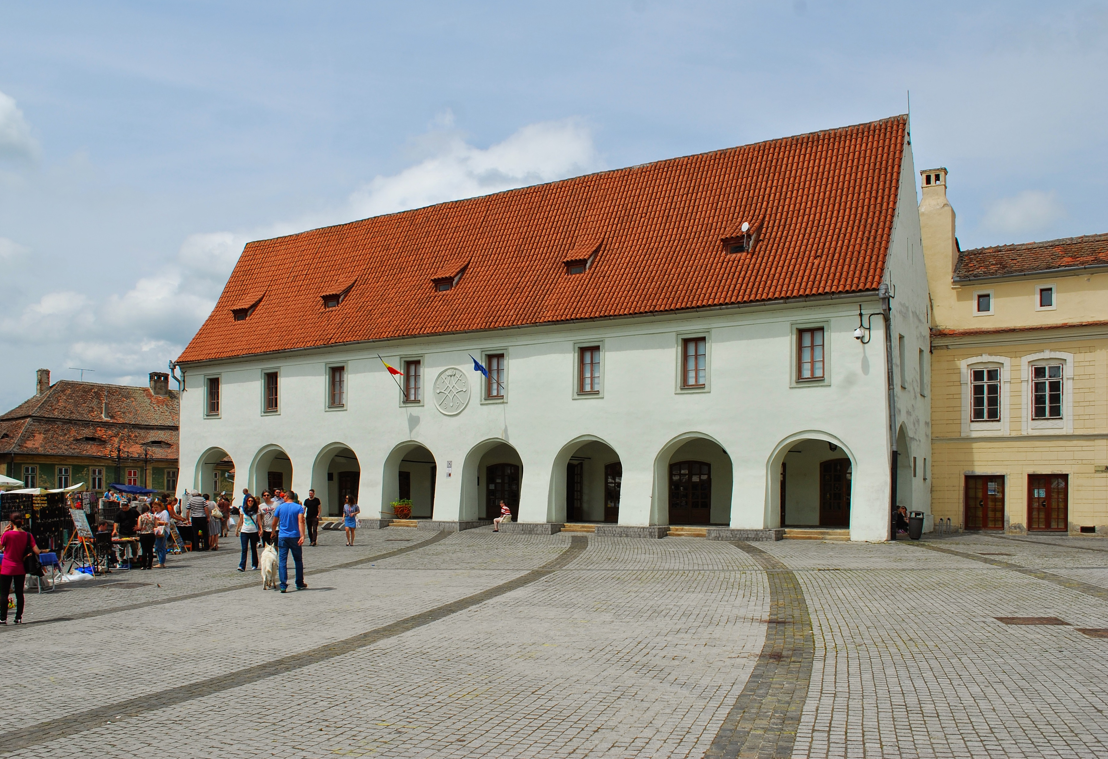 Butchers' hall (currently, House of Arts) in Sibiu, RomaniaRomână: Hala Măcelarilor (astăzi, Casa Artelor) din Sibiu, România